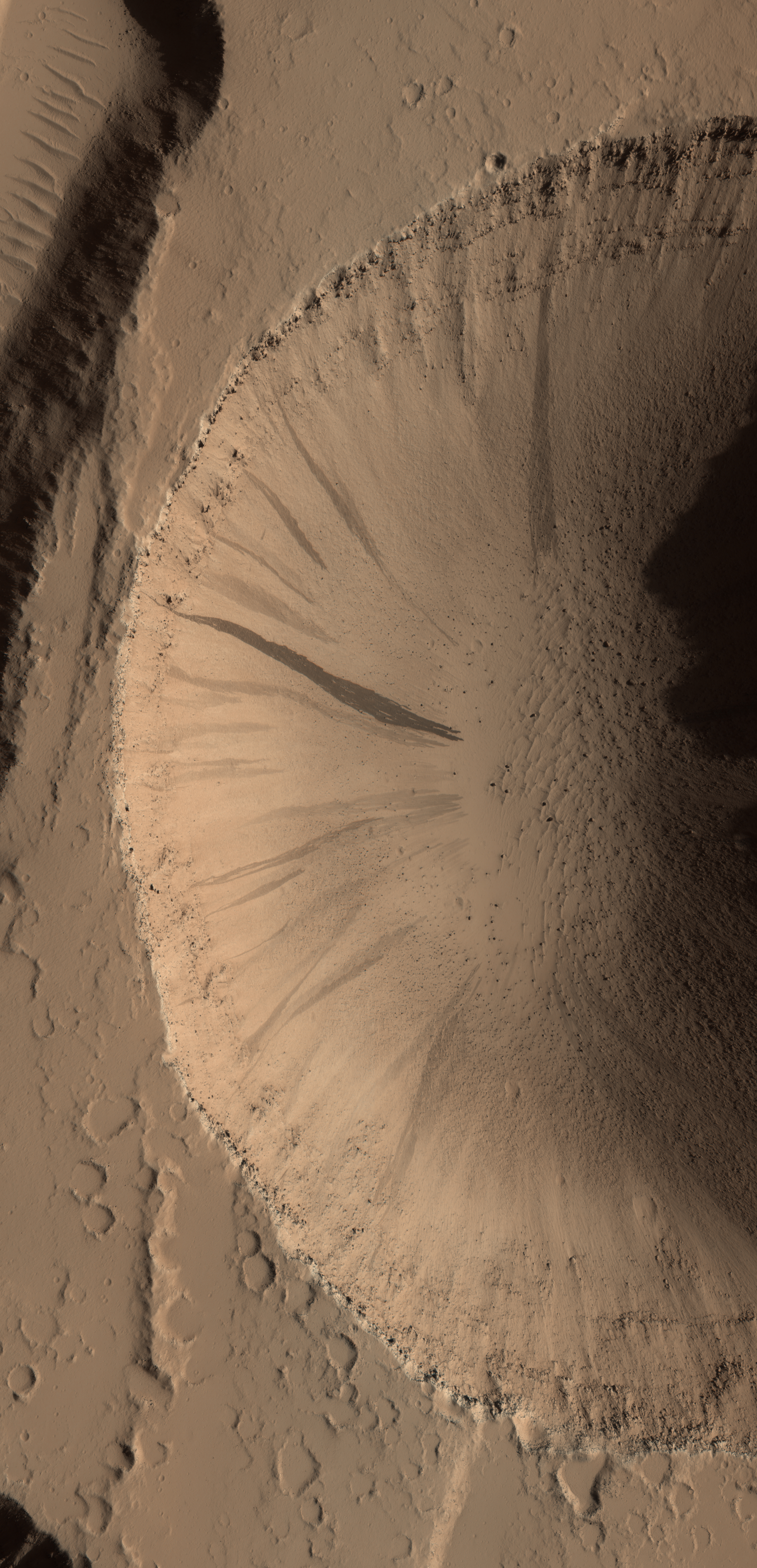 A pit in Tractus Catena imaged by the HiRISE instrument aboard Mars Reconnaissance Orbiter.